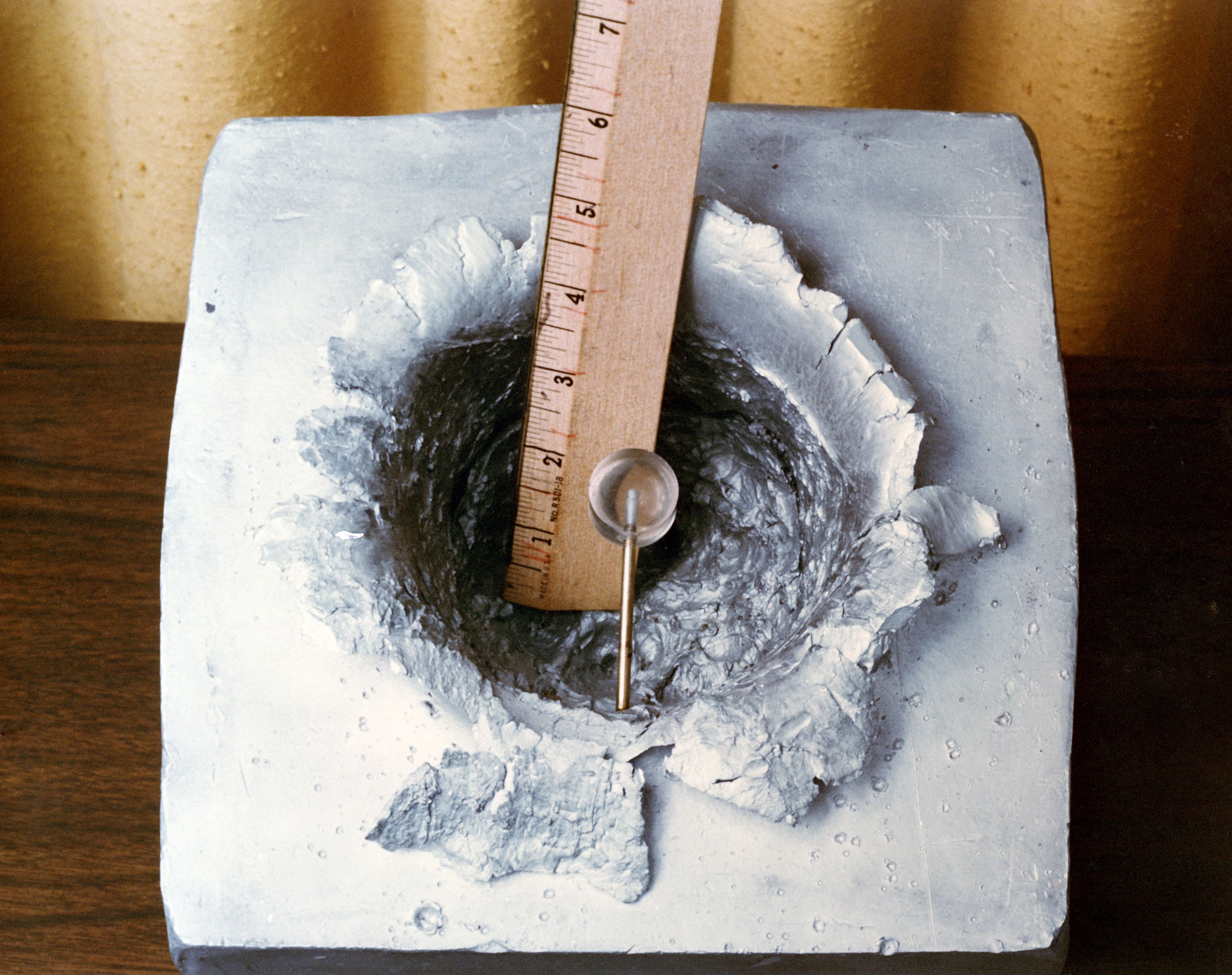 During a test of the effects of Kinetic Energy Weapons (KEW) at the General Motors-Delco test facility, a seven gram Lexan projectile was fired from a light gas gun at a velocity of 23,000 feet per second (≈7000 m/s) at this cast aluminum block. The KEW technologies are part of the Strategic Defense Initiative research program to determine the feasibility of implementing a multi-layered defense against ballistic missiles. Location: SANTA BARBARA, CALIFORNIA (CA) US